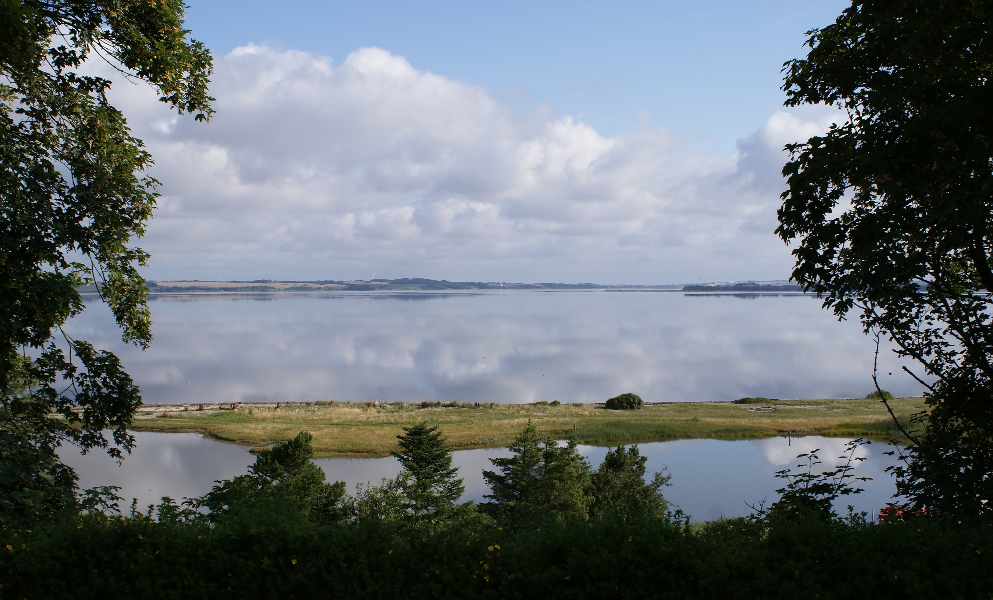 View over Dragstrup Vig, Mors, Denmark and The Limfjord from the holyday camp Susvind on the Southern side of Dragstrup Vig. The inner body of water is a small lake of brackish water. In the horizon to the right is seen the Northen part of Dragstrup Vig (Revlskær Hage), and on the left side of the horizon is seen part of Thy, Skyum Sogn area. The camera location was about 10 m above sea level.